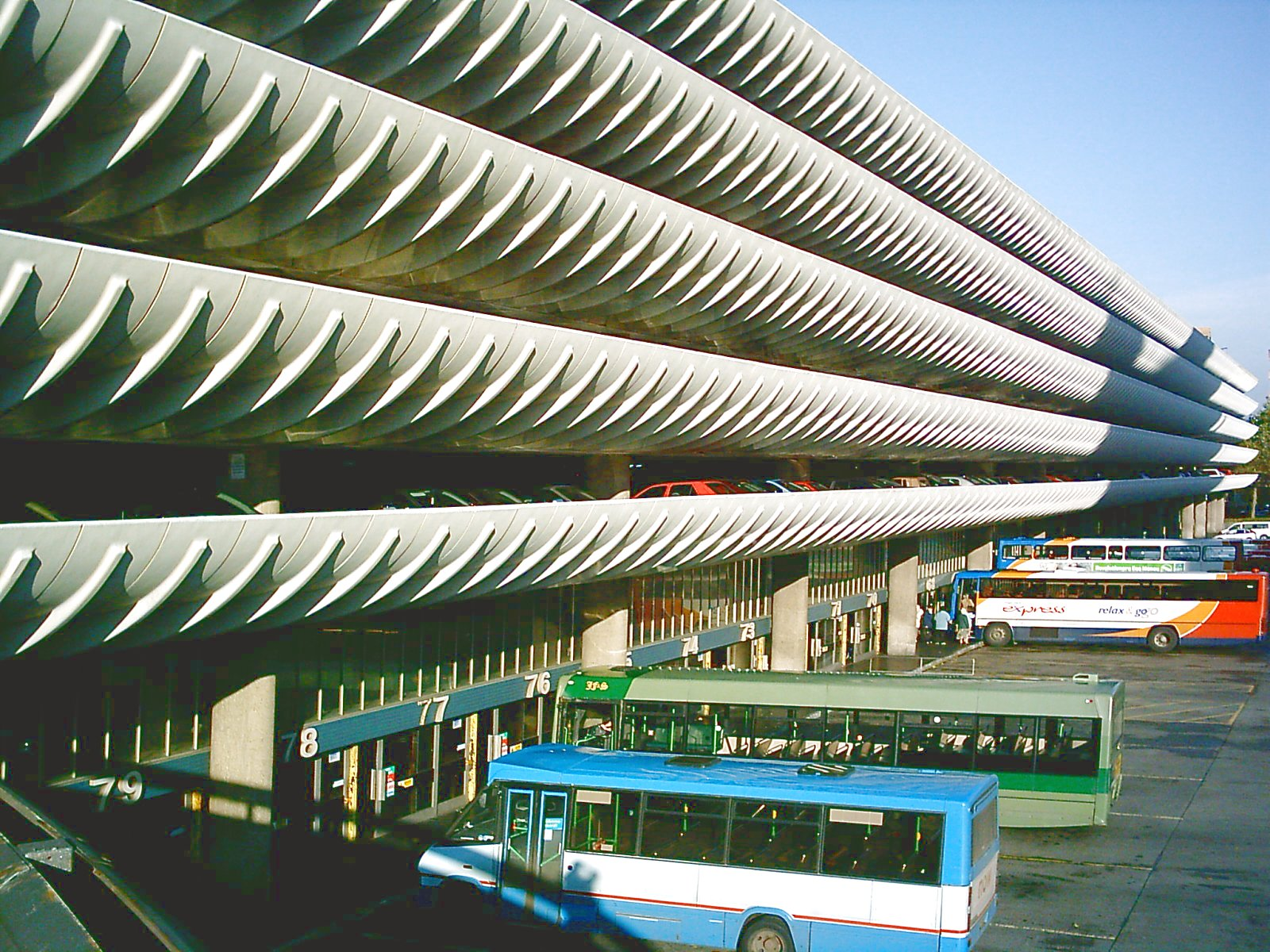 The bus/coach station/Multi-story carpark in city of Preston,Lancashire.One of the largest in Europe,built in the 60s,and the subject of much heated-debate for the past 4or5 years.Because of a vast urban-regeneration project,developers want to demolish it.Half the population of Preston say it's a 60s classic and should be made a listed-building.The other half say it's a monstrosity and should be got rid of as soon as possible. What do you think?